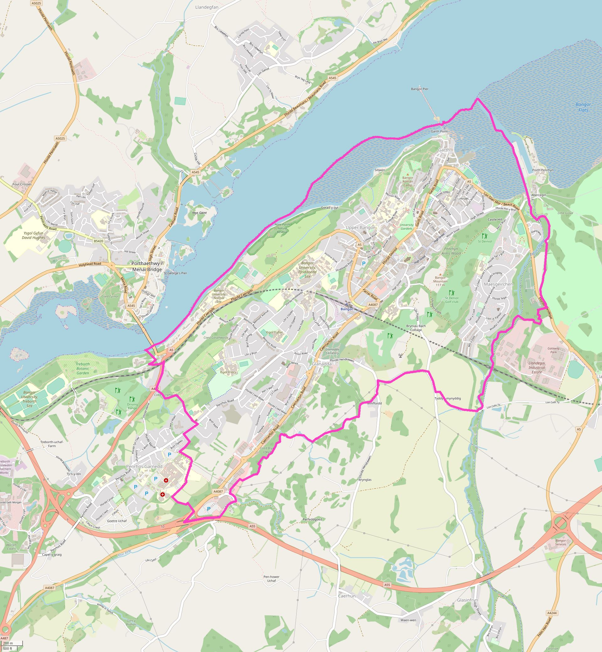 Bangor showing city/community boundary